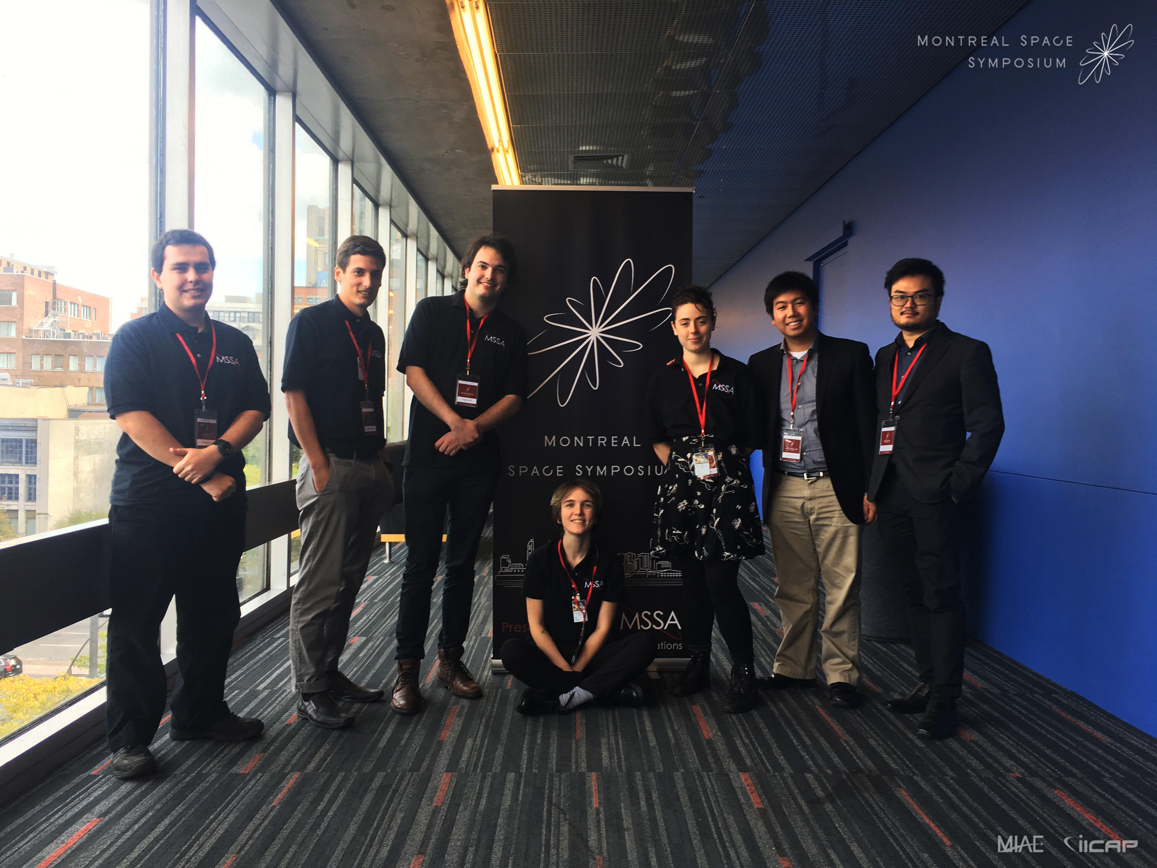 The MSSA members who organized the first Montreal Space Symposium, the first public action of the group.